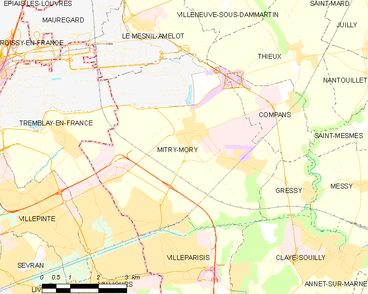 Map of French municipality Mitry-Mory